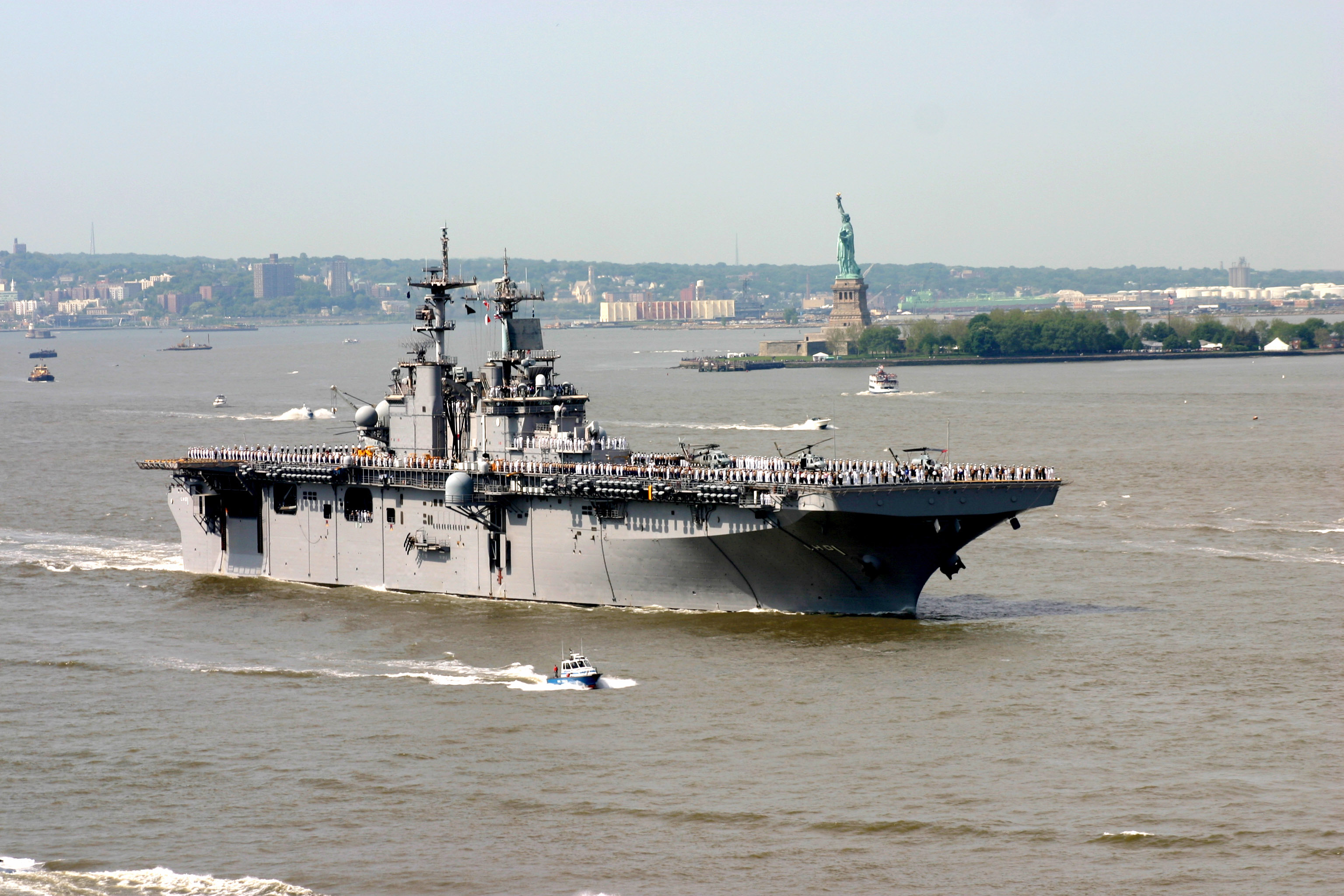 NEW YORK (May 23, 2007) - USS Wasp (LHD 1) passes the Statue of Liberty as the ship enters New York Harbor during the parade of ships on the opening day of the 20th anniversary of Fleet Week New York. More than 3,000 Sailors, Marines and Coast Guardsmen will participate in various community relations (COMREL) projects and see the sights in New York City during fleet week. U.S. Navy photo by Mass Communication Specialist 2nd Class Michael Tackitt (RELEASED)